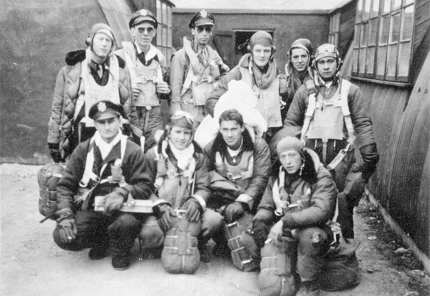 A bomber crew of the 452nd Bomb Group on their return from the Romilly mission to France. A veteran has handwritten on the reverse: 'On just returning from Romilly, France, their first mission and the Group's second for a repeat performance. Original members of the "Punched Fowl". crew # 48, lead crew 730th Sqdn, 452nd Bomb Gro. Front row from left are Flight Officer Leon B Slobodzian, Bombardier; and S/Sgts George W Haggerty, Right Waist Gunner; Everett L Wales, Radio Operator, and Walter- S- Chochrek, Engineers and Top Turret Gunner. Back row from left- 1st Lt Chester L Story, Navigator; 2nd Lt Frank L Houston, Co-pilot, 1st Lt Jimme H "The Skipper" Vallee, Pilot; Sgt James J Doherty, tail gunner; S/Sgt Ivan C Dixon, Lower ball gunner and Sgt Raymond Schumacher, left waist gunner.'